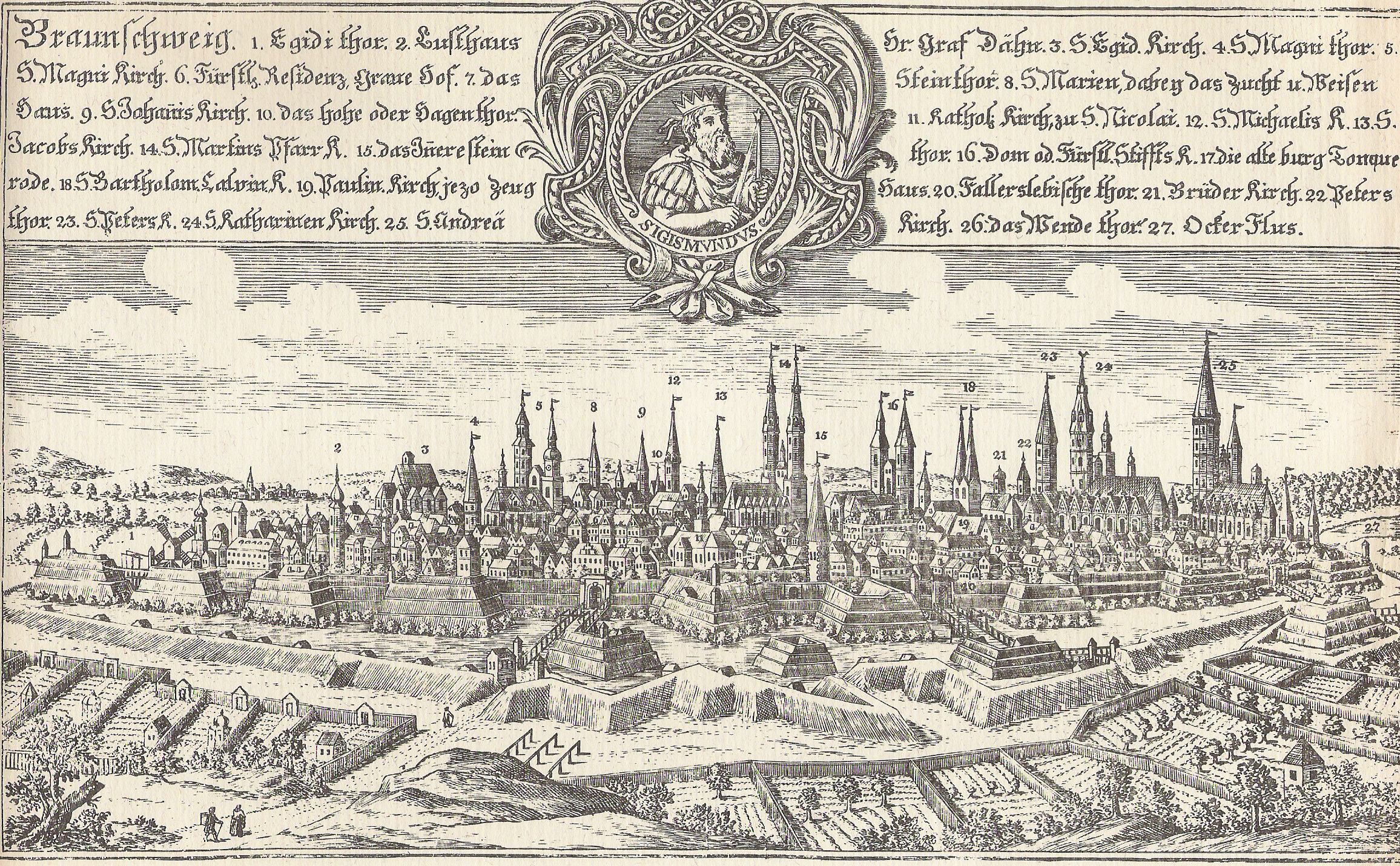 Historical view of Braunschweig